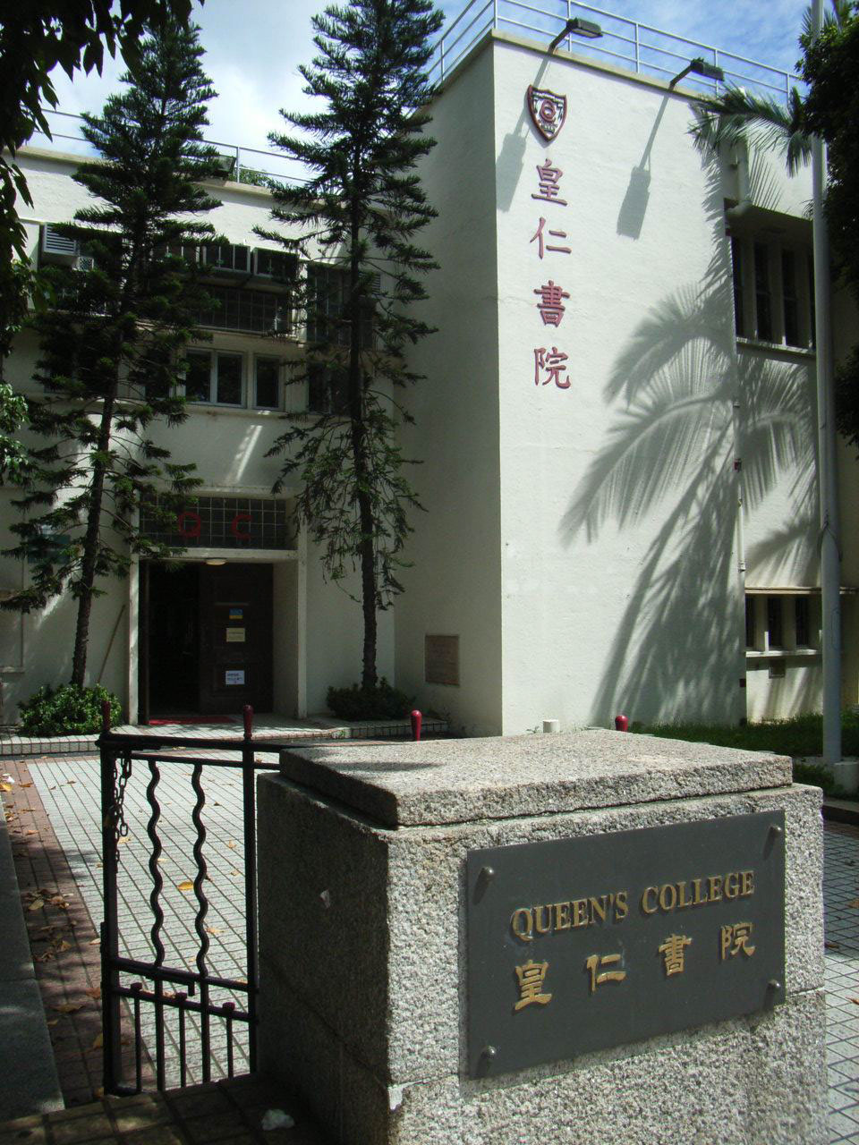 皇仁書院, Queen's College, Causeway Bay, Hong Kong